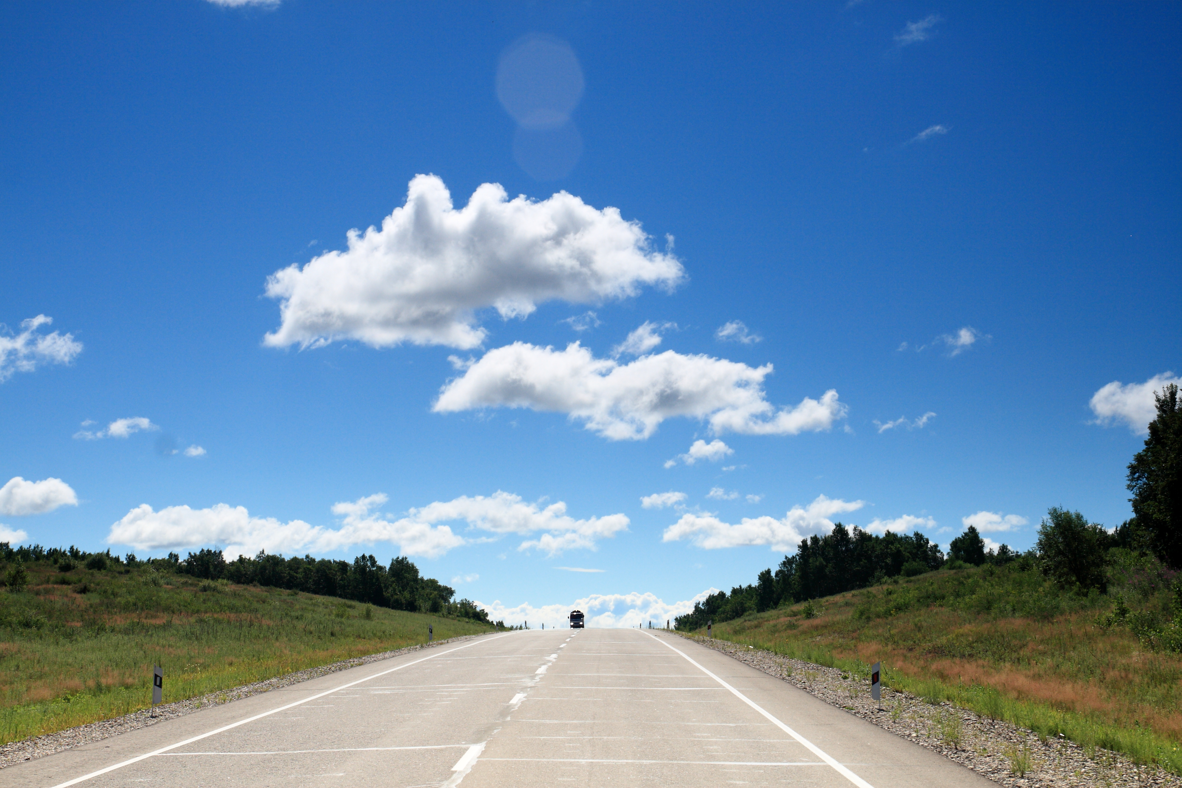 Federal highway R297 highway near village of Rodionovka, Bureysky District, Amur Oblast